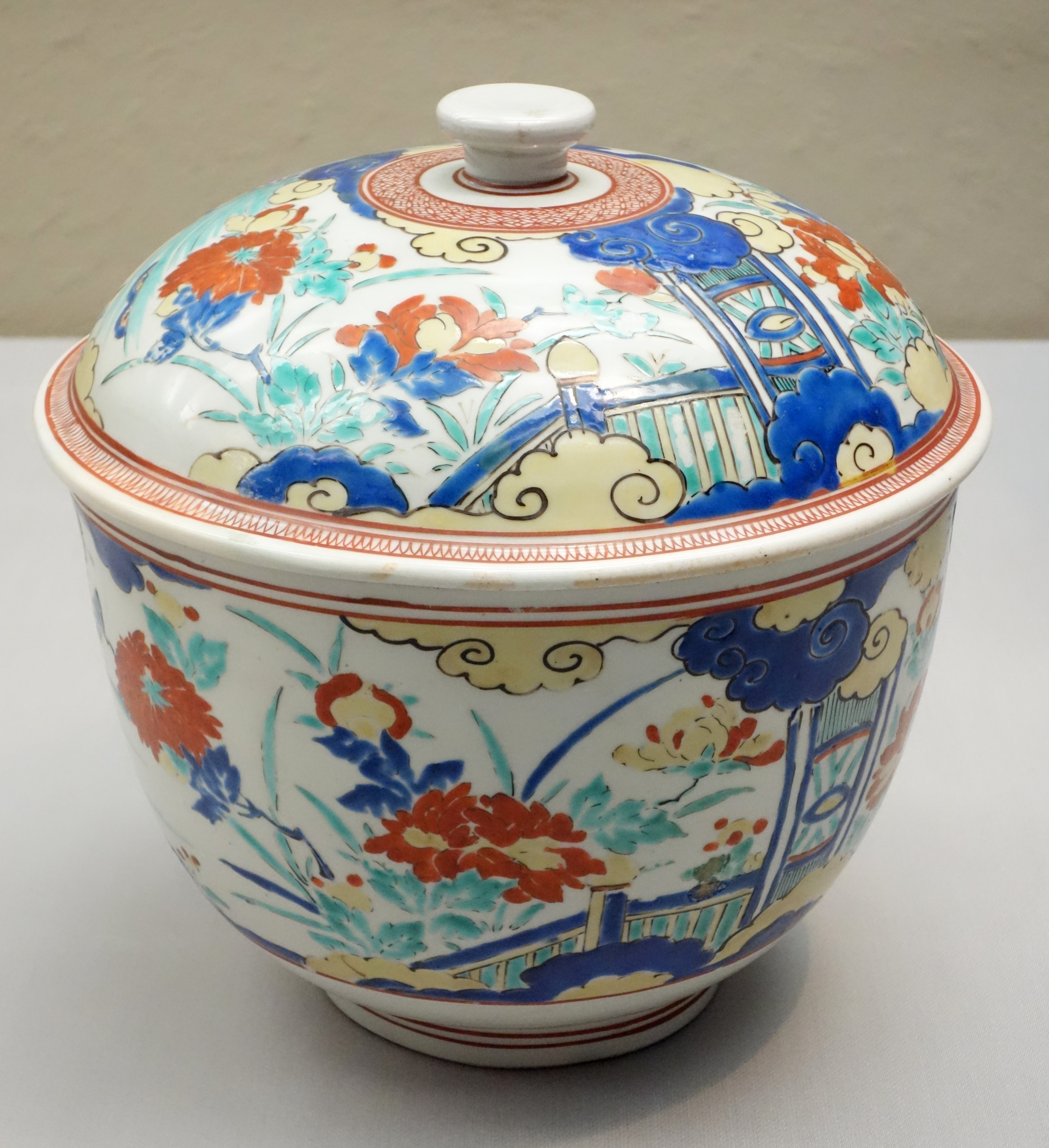 Exhibit in the Tokyo National Museum, Tokyo, Japan. This artwork is old enough so that it is in the public domain.